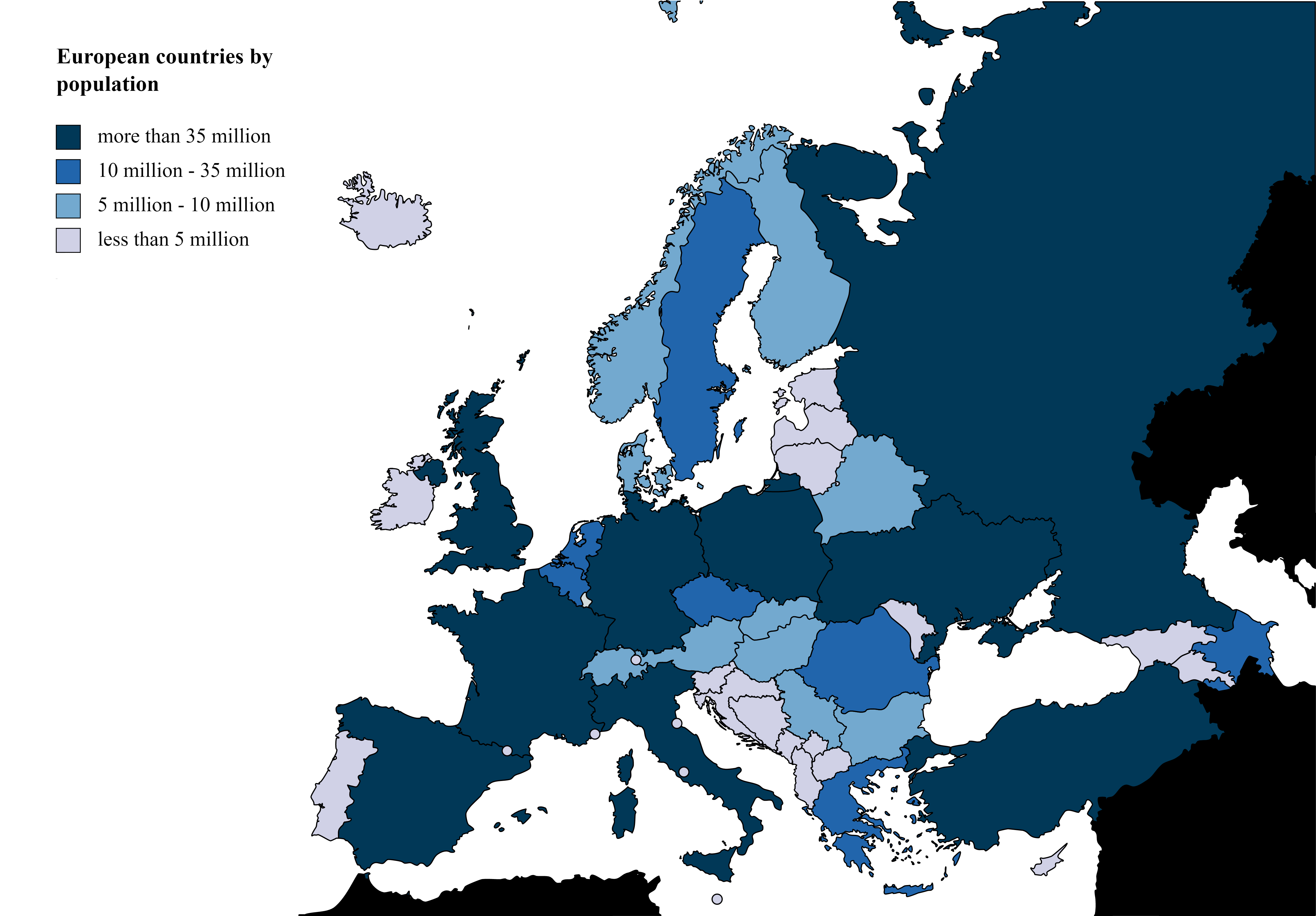 European countries by population, 2020